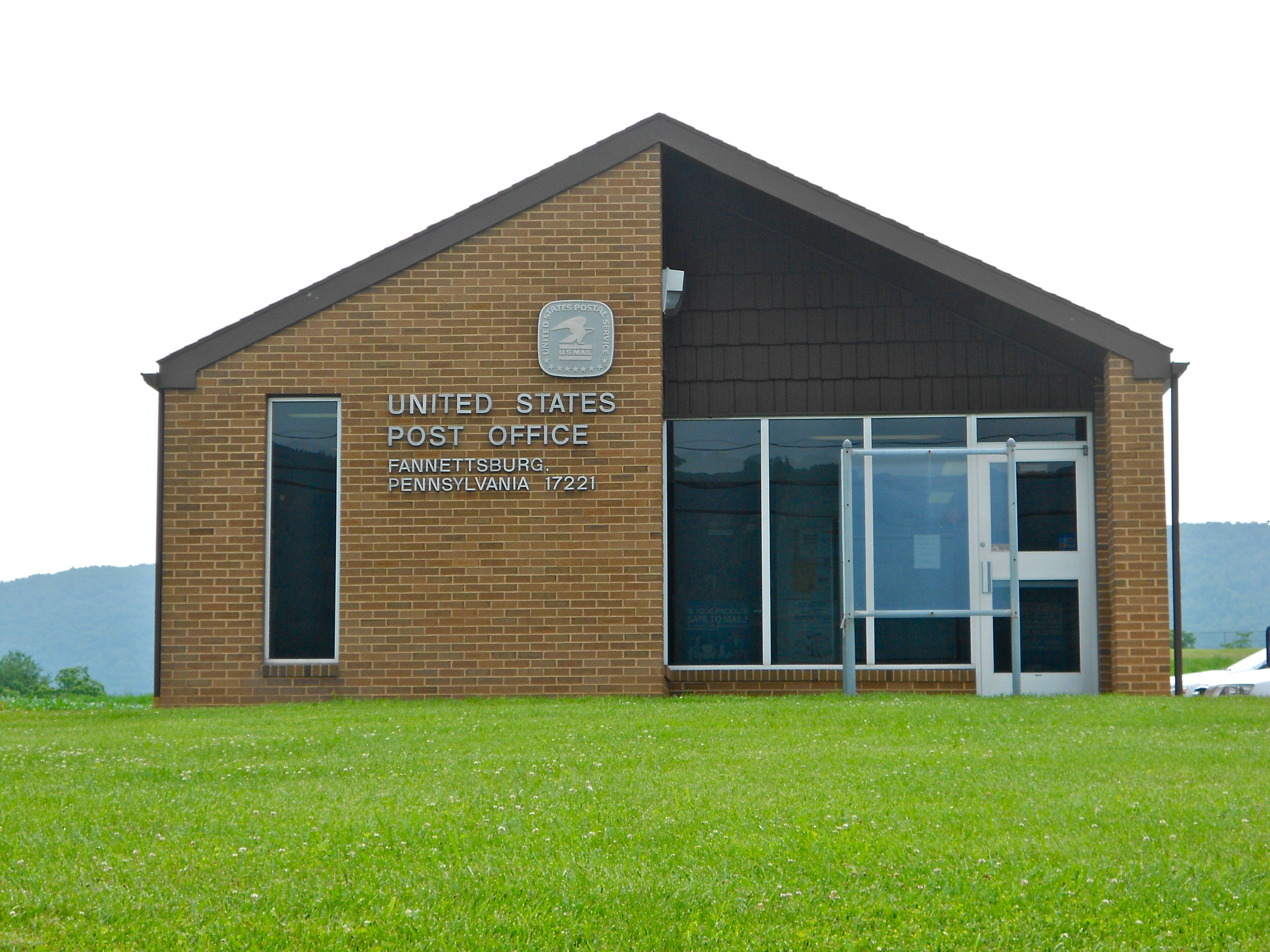 United States Post Office in Fannettsburg, Metal Township, Pennsylvania. Zip code 179221. Note that Fannettsburg is south of Fannett Township: close but not in it.